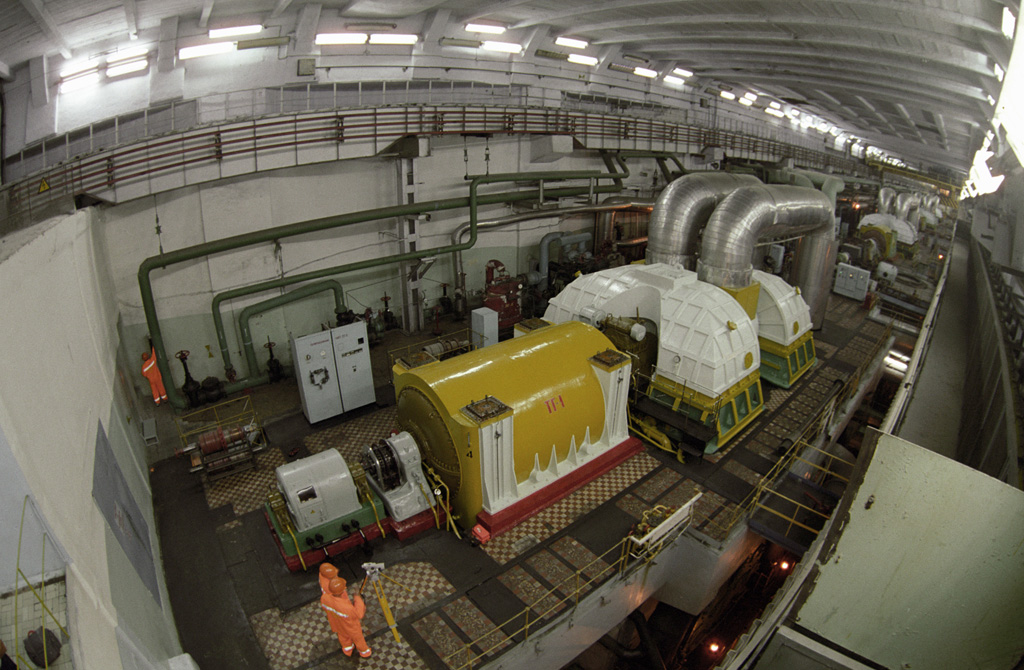 “Underground nuclear plant piping area”. An underground nuclear plant piping area at the chemical combine in Zheleznogorsk, former Krasnoyarsk-26.